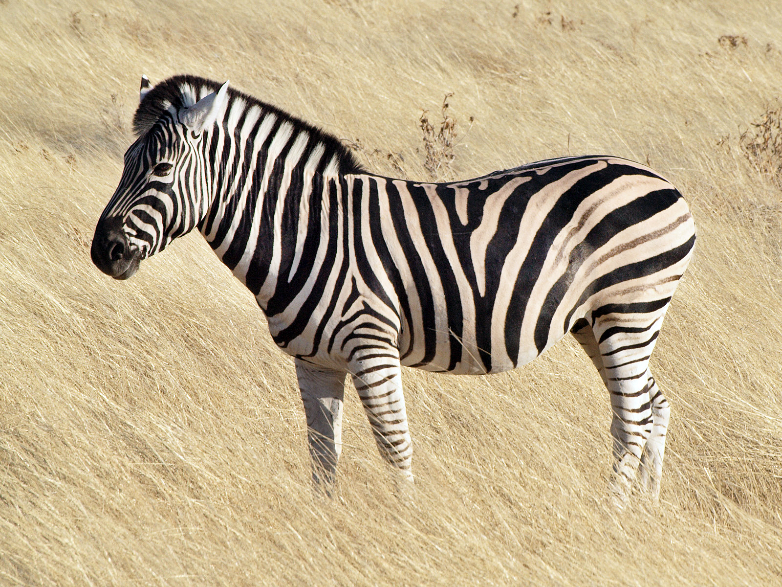 A Plains zebra in the Etosha National Park, Namibia